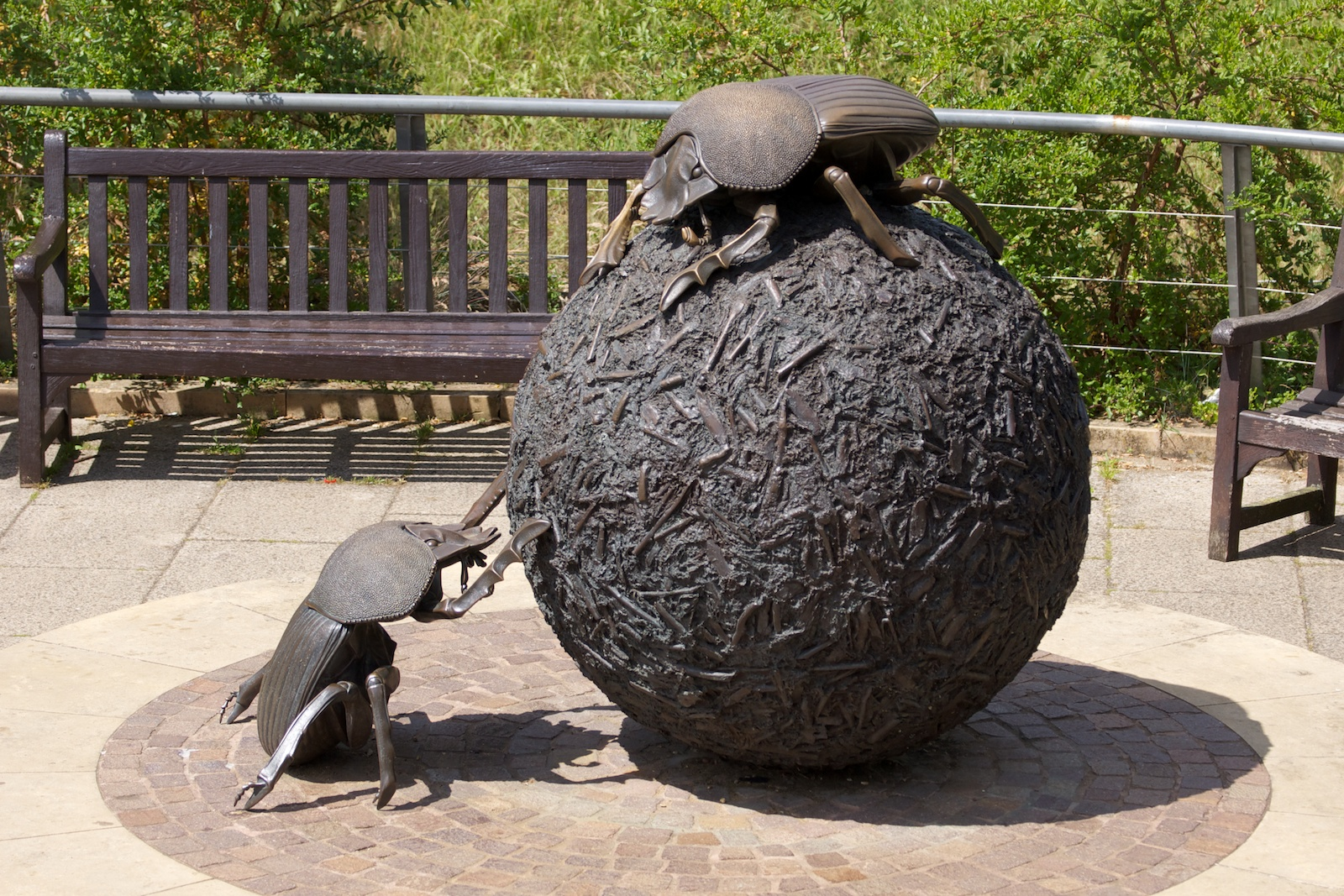 Dung Beetles Sculpture by Wendy Taylor at the London Zoo